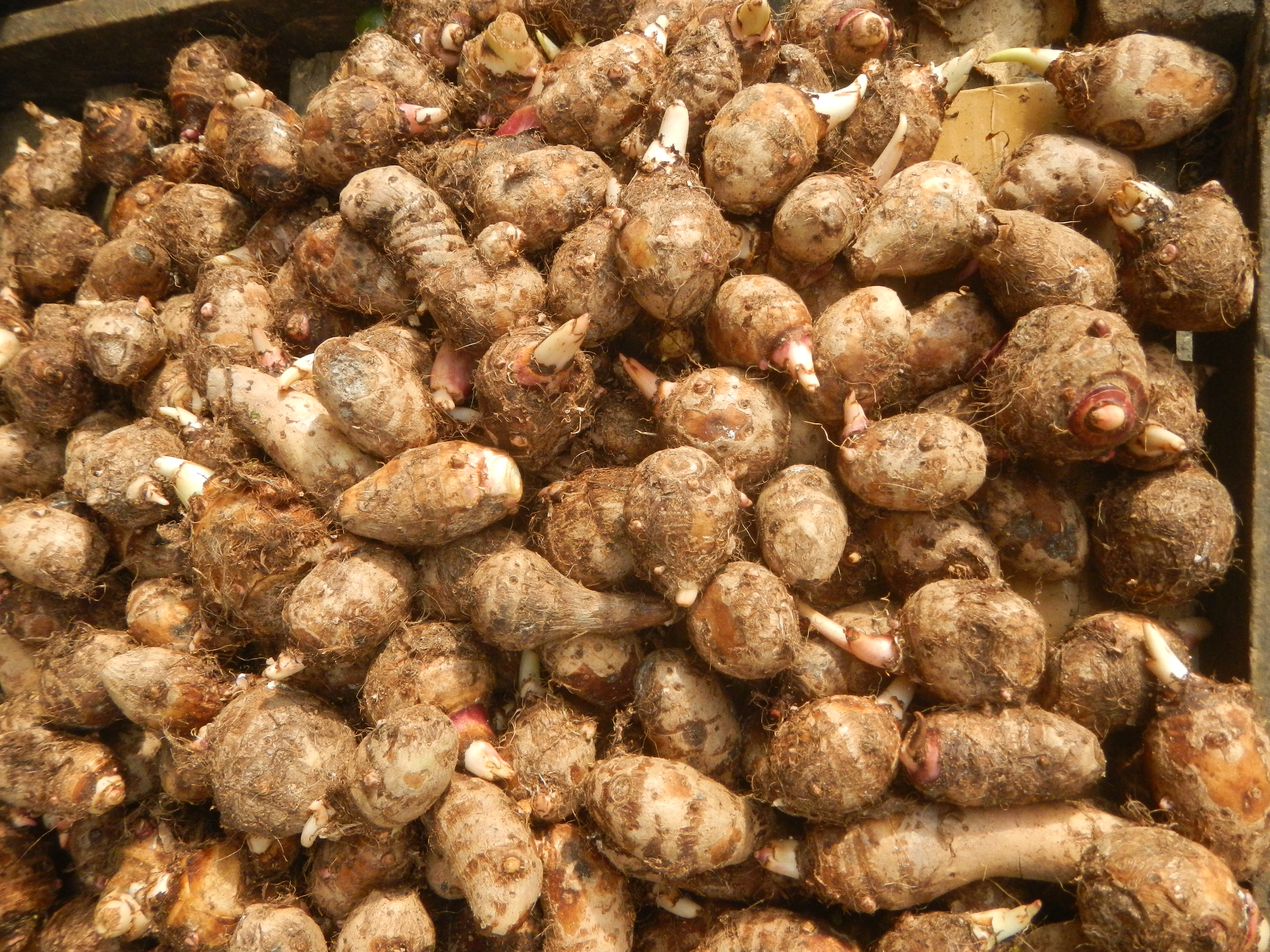 Brisket of beef Camaron rebosado (Baliuag, Bulacan) Camaron rebosado Tofu dishes of the Philippines Omelettes in the Philippines Gabi (Philippines) Mami soup Cultivated Cucurbita of the Philippines in Barangay Pagala 14°58'11"N 120°53'41"E from Poblacion 14°57'17"N 120°54'2"E Baliuag, Bulacan, Bulacan province (Note: Judge Florentino Floro, the owner, to repeat, Donor Florentino Floro of all these photos Judge Floro hereby donate gratuitously, freely and unconditionally all these photos to and for Wikimedia Commons, exclusively, for public use of the public domain, and again without any condition whatsoever).